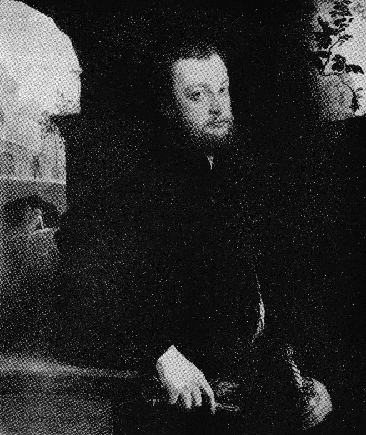 Melchior Manlich (1513-1576); 1536; 107:92 cm